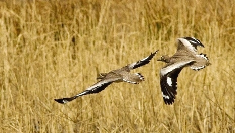 Burhinus senegalensis pair in flight, The Gambia. BIRDS GAMBIA-1274